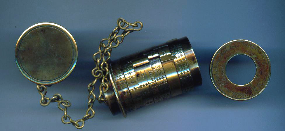 Watkins Exposure Meter with one-second pendulum timing chain attached to removable cover at one end, rotatable rings around cylinder to calculate aperture, time, etc, and removable cover at other end to retain coil of light-sensitive paper, with slit to pull out in stages. Engraved 'Watkins Exposure Meter - Patent - Sole Makers R. Field and Co. Birmingham'. Note: this is not the later Watkins 'Bee' Meter, which was similar in appearance to a pocket watch.